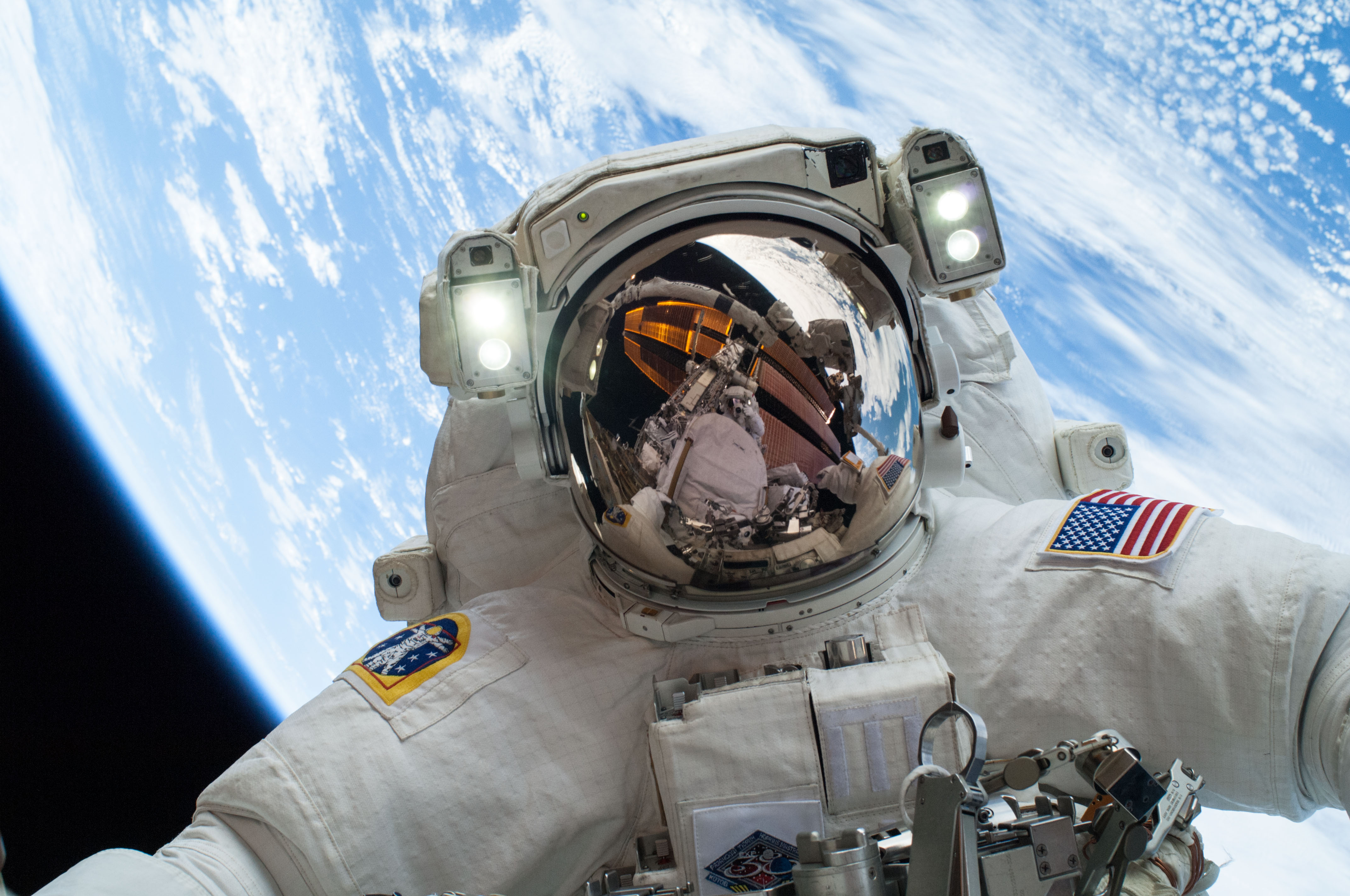 On Dec. 24, 2013, NASA astronaut Mike Hopkins, Expedition 38 Flight Engineer, participates in the second of two spacewalks, spread over a four-day period, which were designed to allow the crew to change out a degraded pump module on the exterior of the Earth-orbiting International Space Station. He was joined on both spacewalks by NASA astronaut Rick Mastracchio, whose image shows up in Hopkins' helmet visor. The pump module controls the flow of ammonia through cooling loops and radiators outside the space station, and, combined with water-based cooling loops inside the station, removes excess heat into the vacuum of space.